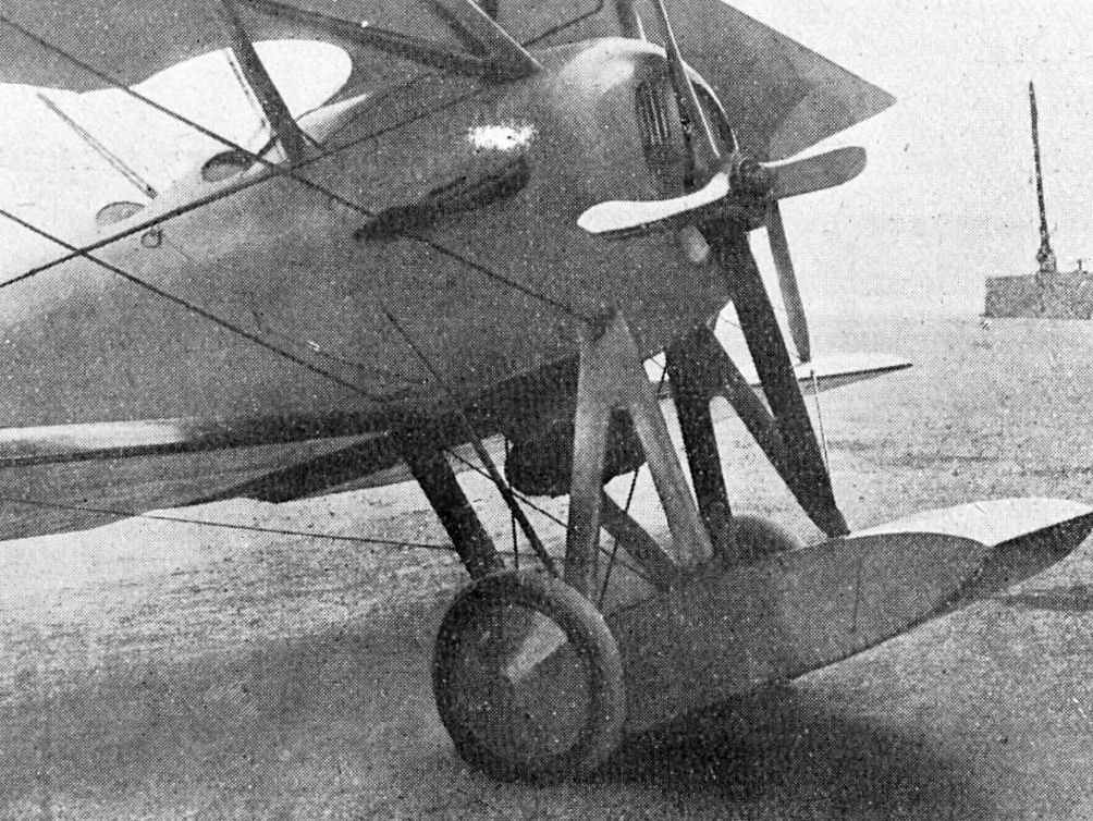 Bleriot SPAD S.39 photo from L'Aéronautique October,1922